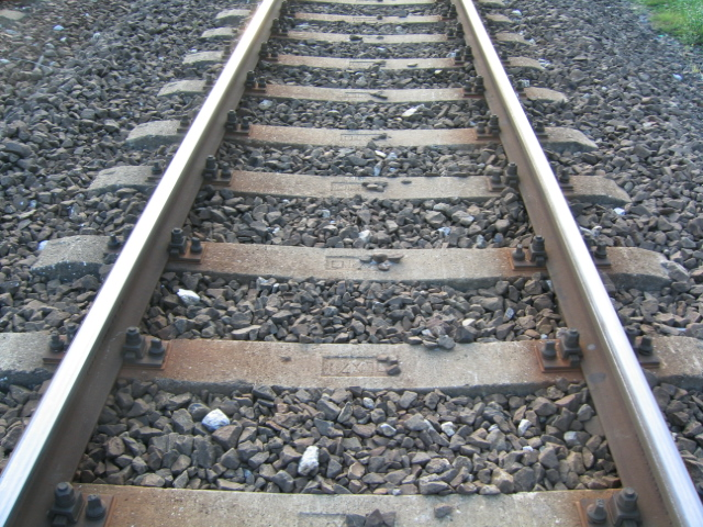 Rail track